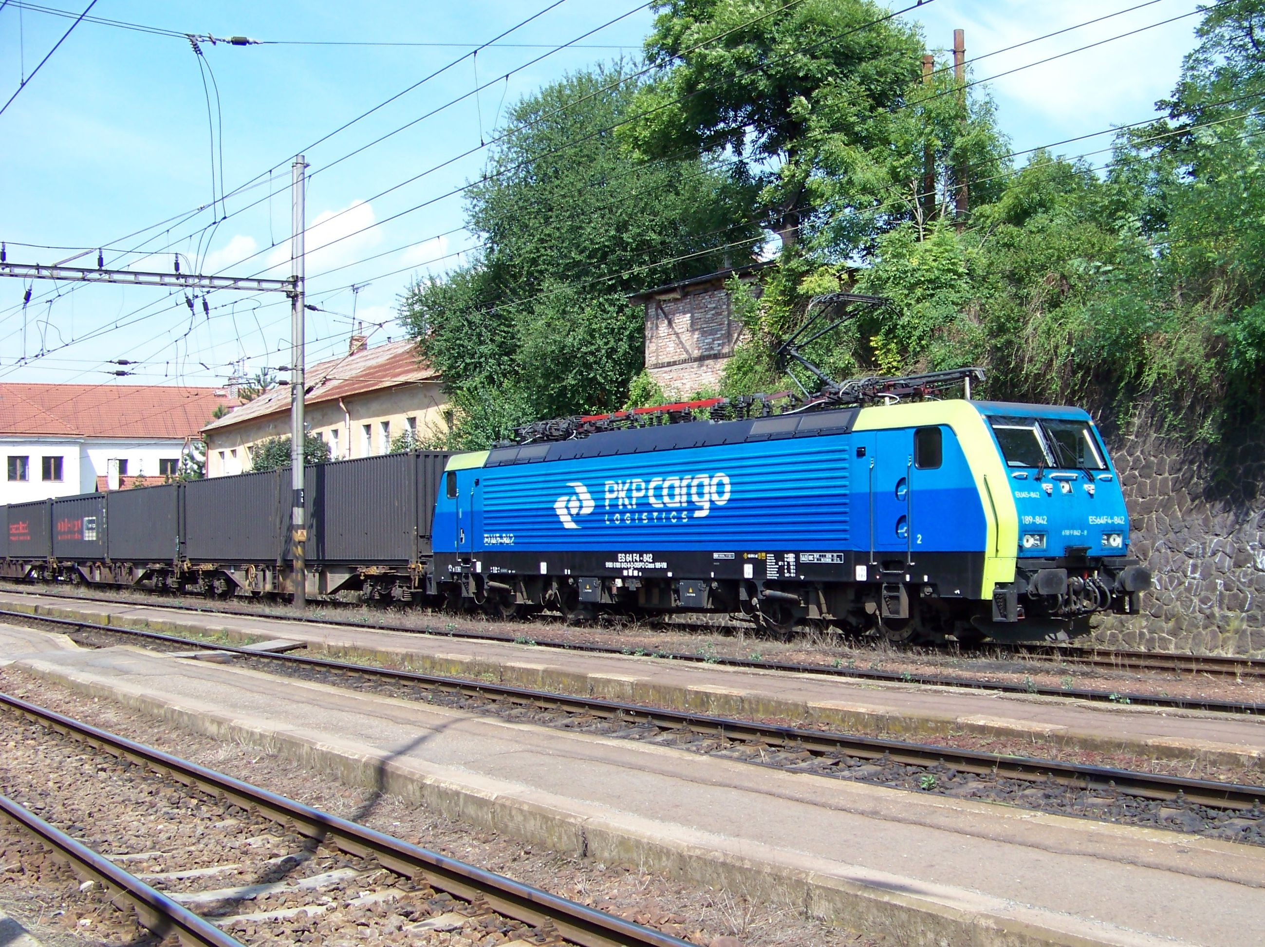 Prague-Bubeneč. Praha-Bubeneč station, a Polish train.